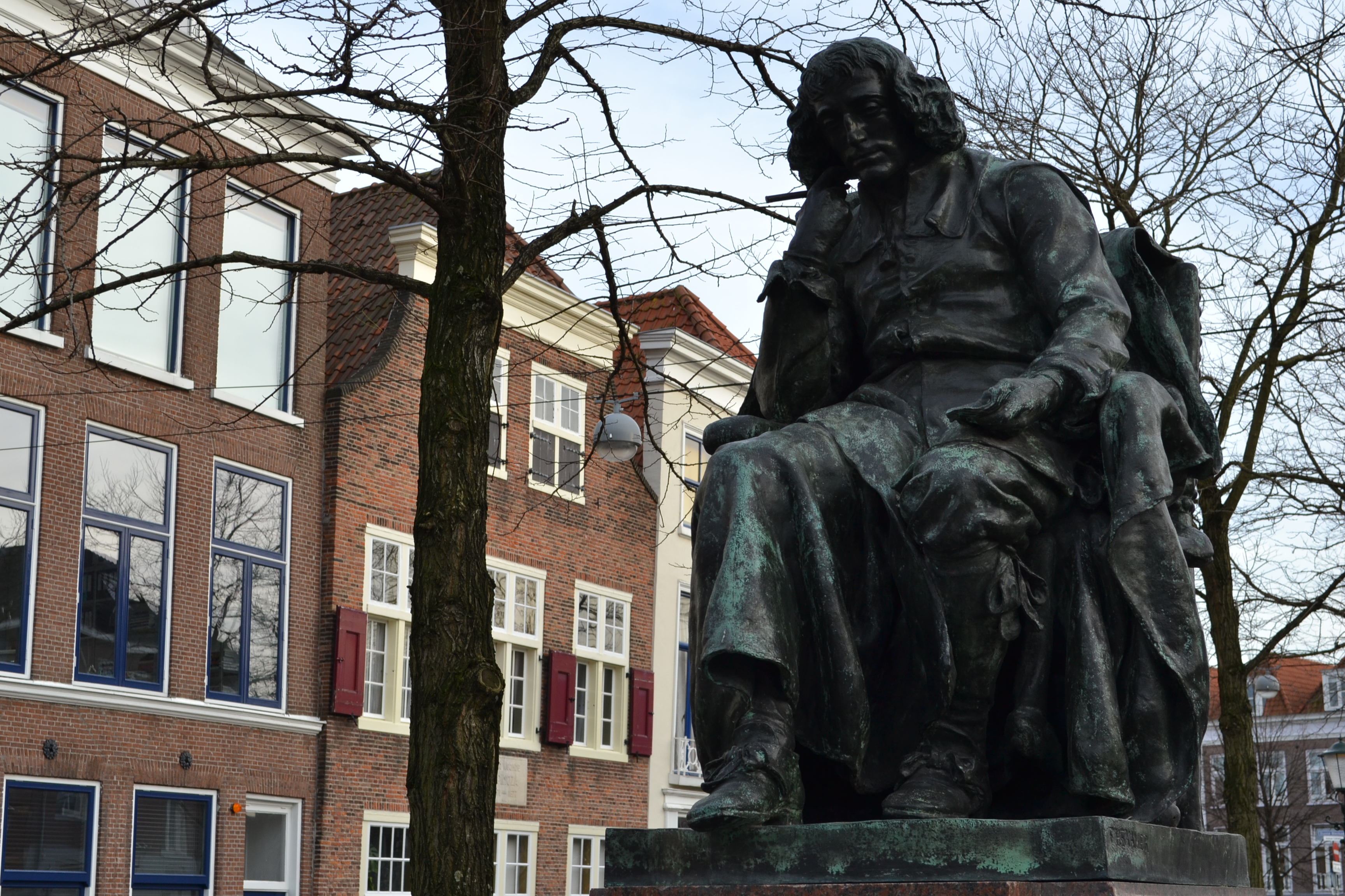 A monument to Baruch Spinoza in The Hague, in front of the house where he died in 1677.